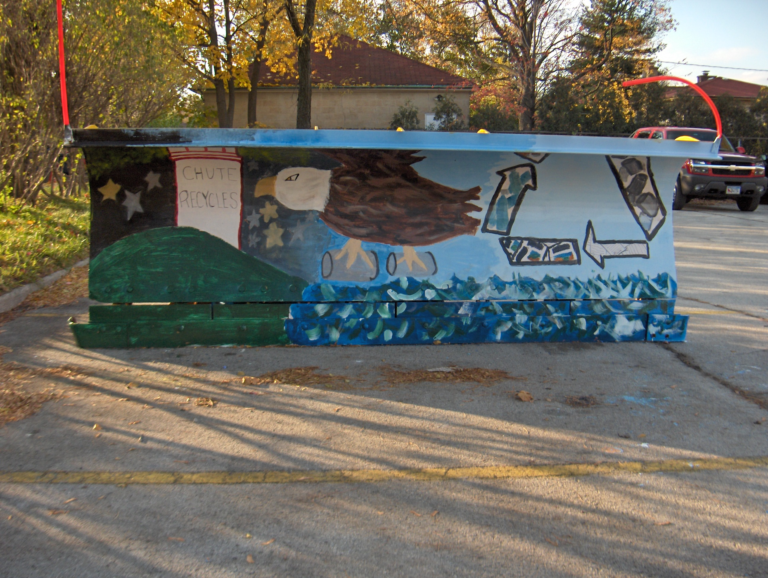 A painted snowplow blade protects the plow and helps for snow to slide off more easily. This blade was painted by art students at Chute Middle School in Evanston, Illinois.